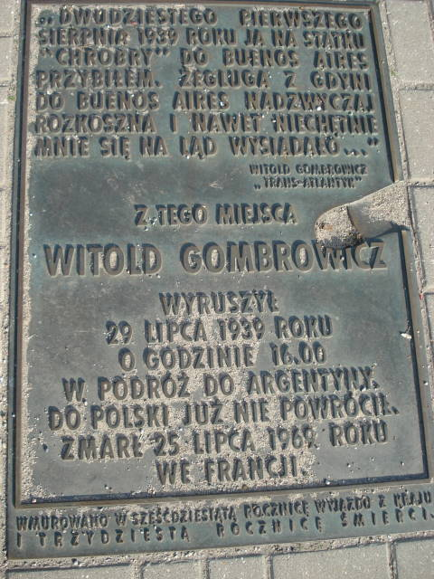 Memorial plate of writer Witold Gombrowicz in the sea-port Gdynia